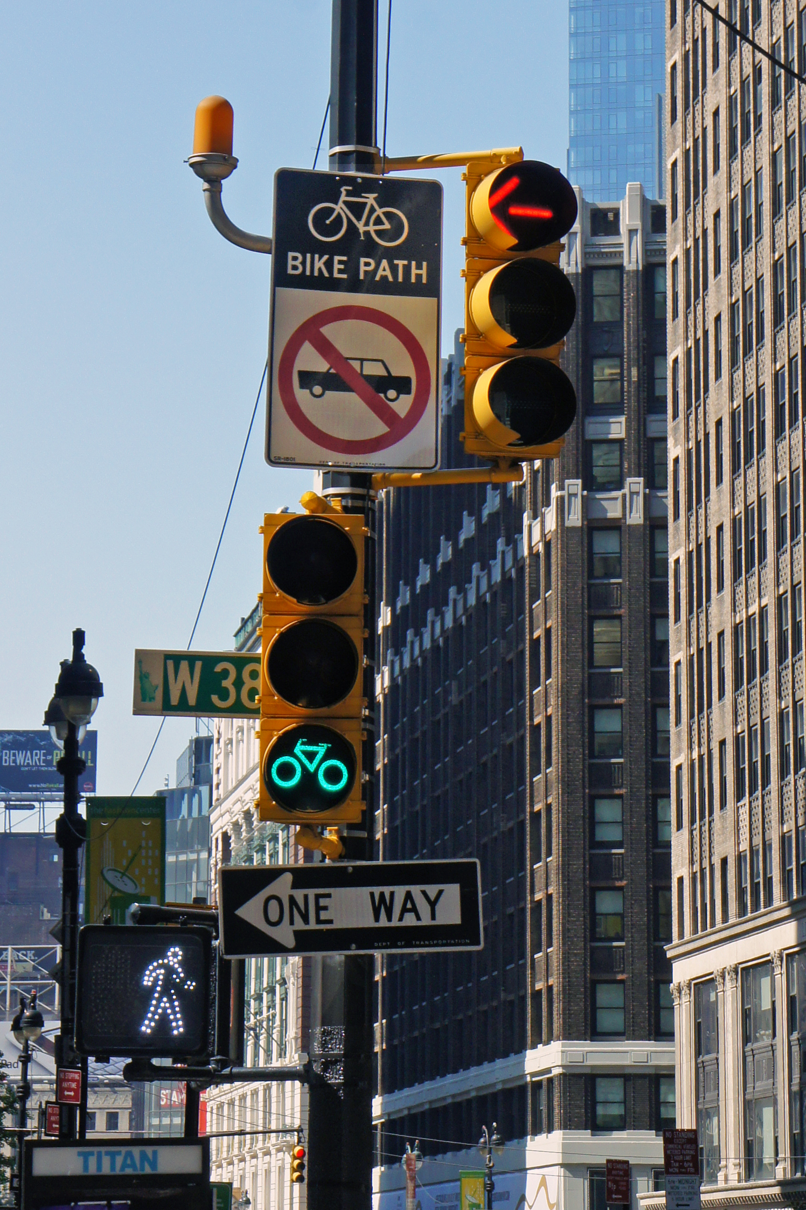 Traffic sign and bike signal at a bike lane on Broadway near Times Square, New York City